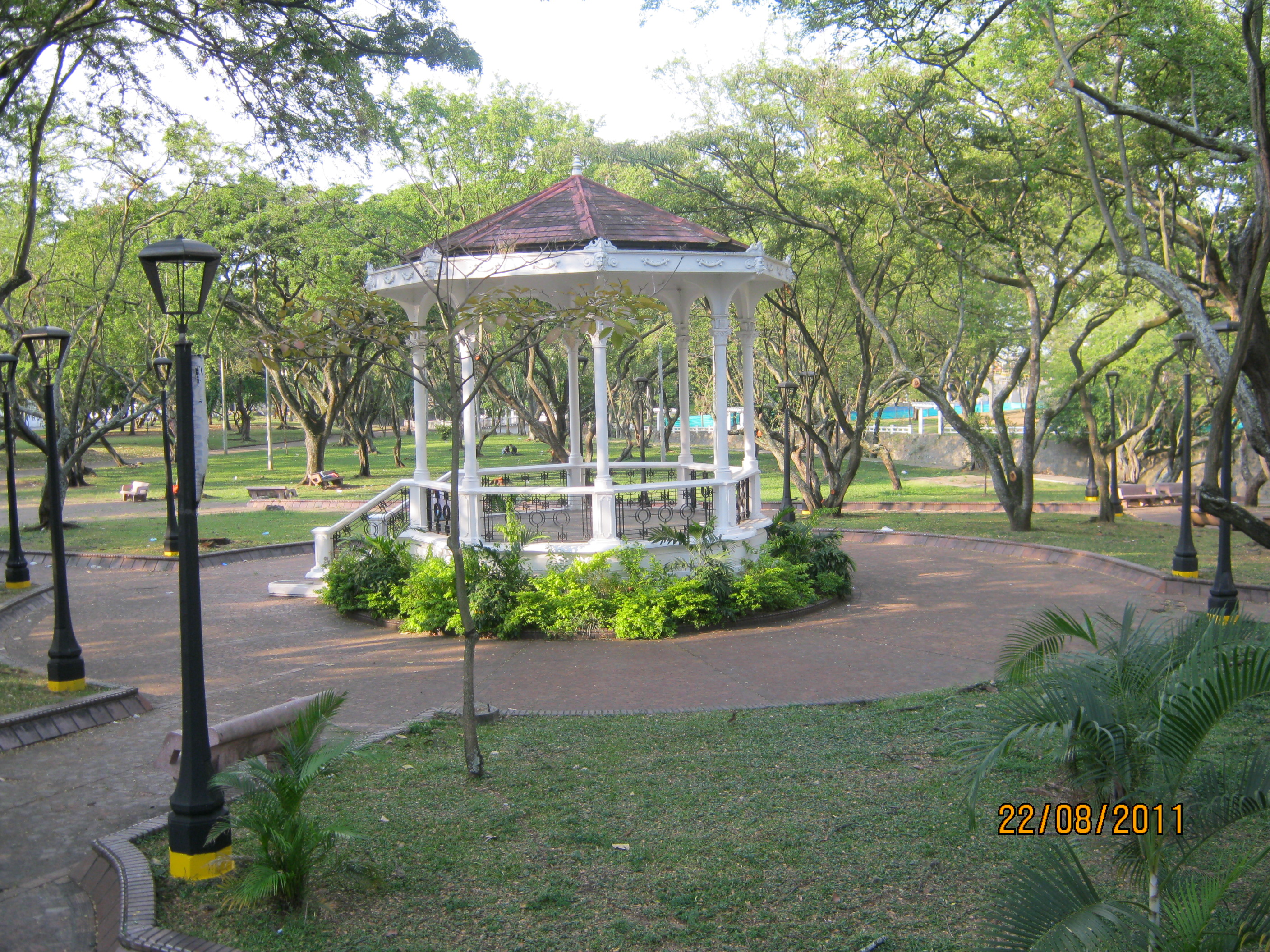 Photo of the Kiosk in the Retreta Park